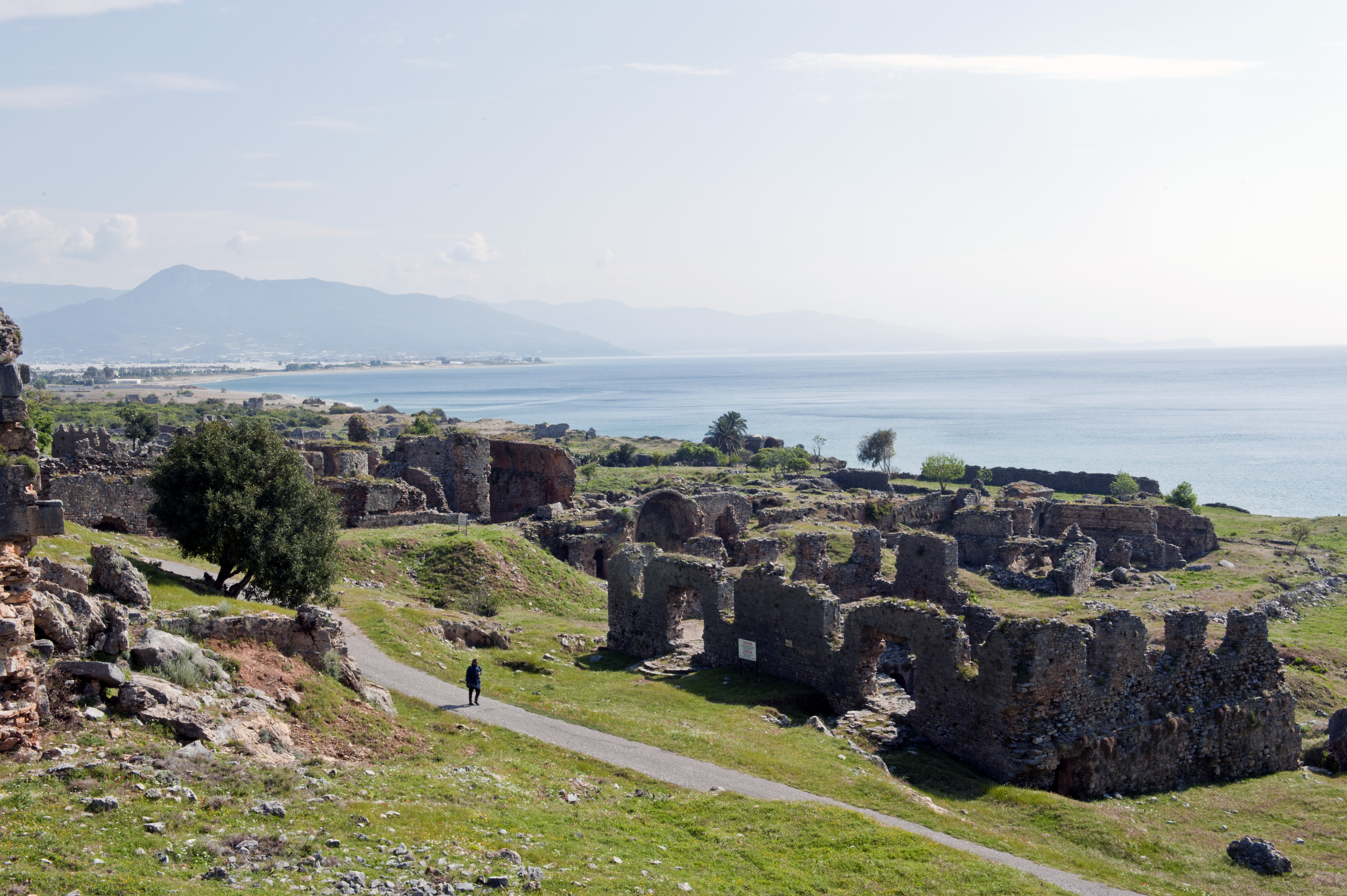 A visitor wanders along the path through Anemurium April 20, 2013, at Anamur, Turkey. Anemurium was a major city built between 100 B.C. and 600 A.D. in the Roman Province of Rough Cilicia and was situated on a high bluff that extended to the sea.